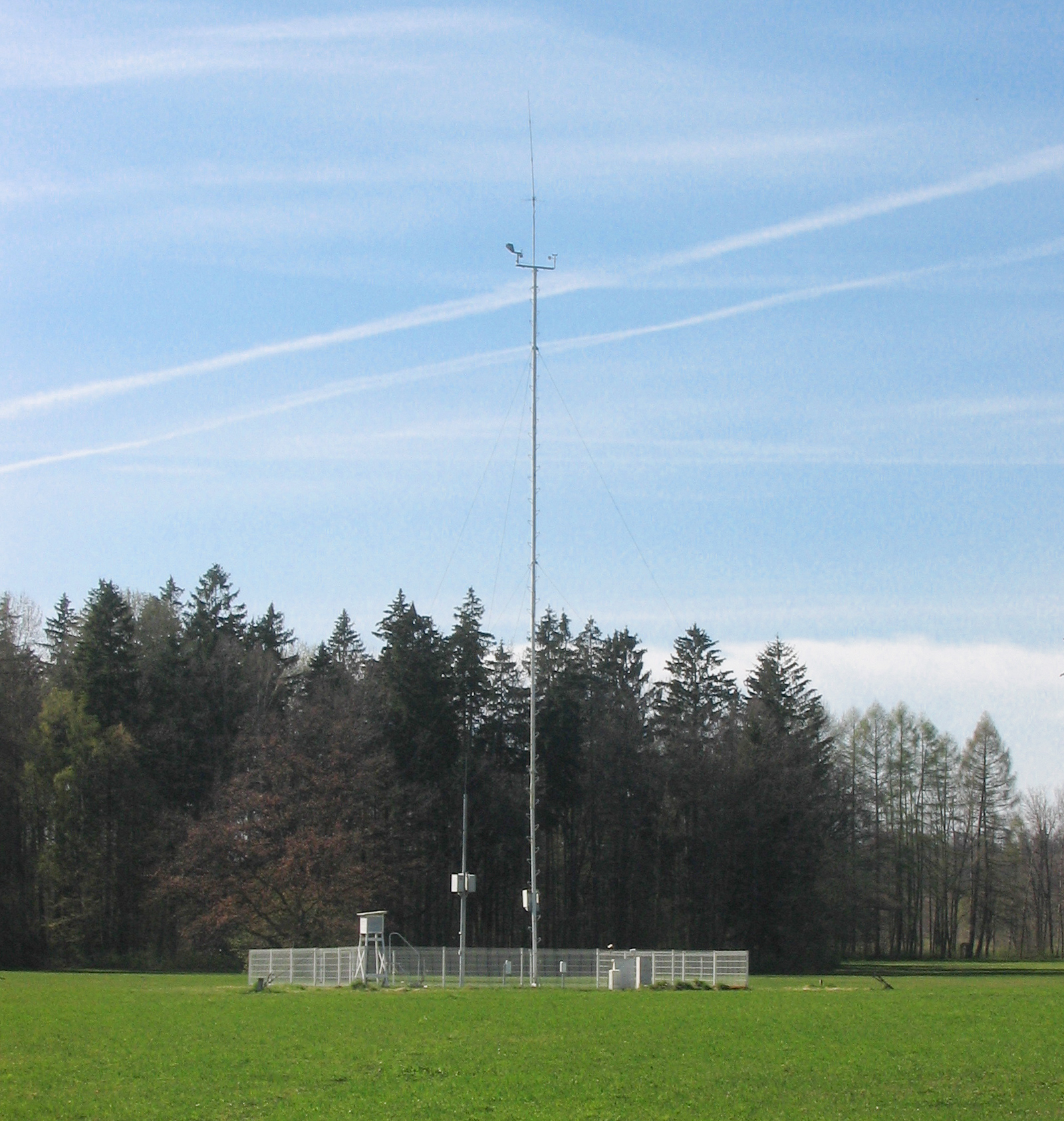 Weather station in Palace Park in Białowieża (POLAND)